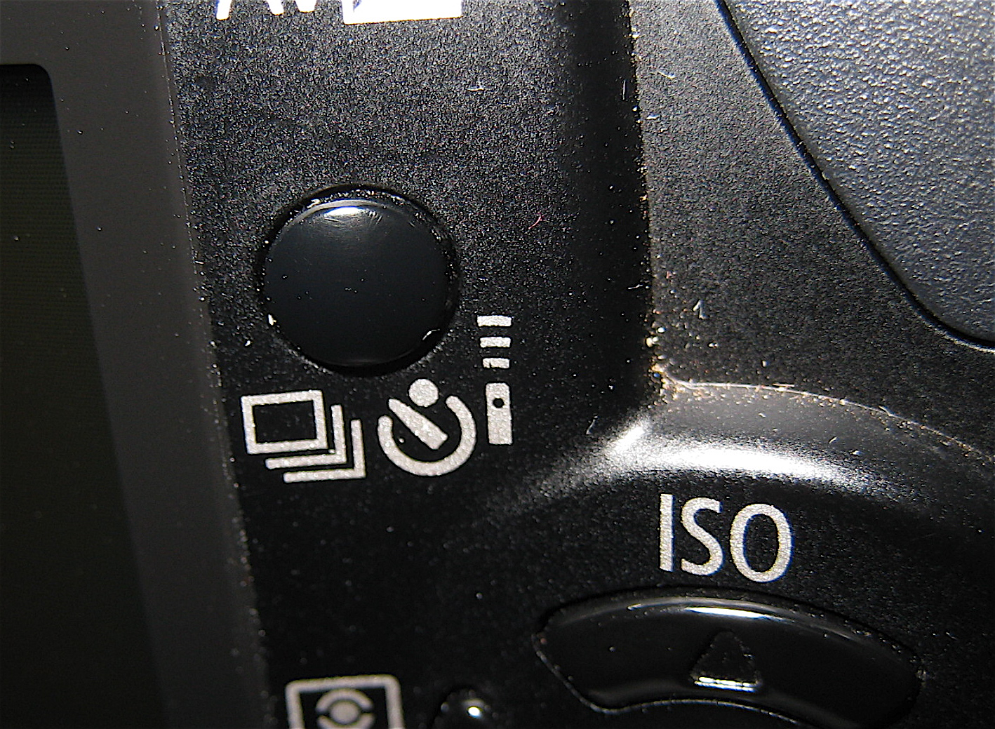 Drive mode button (continuous/self timer/remote) on a Canon EOS 400D camera.